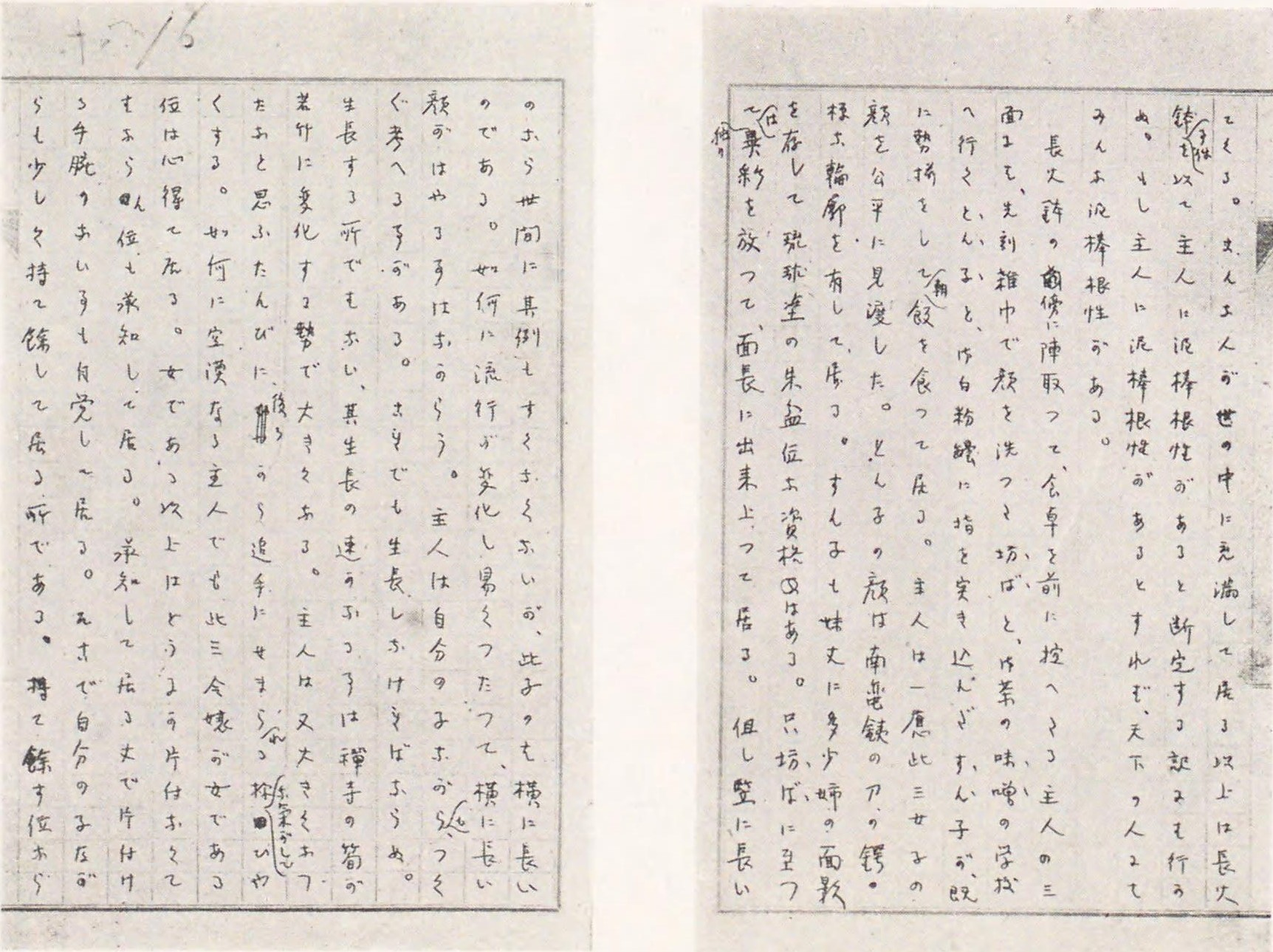 Part of manuscripts of "I Am a Cat" by Natsume Soseki.